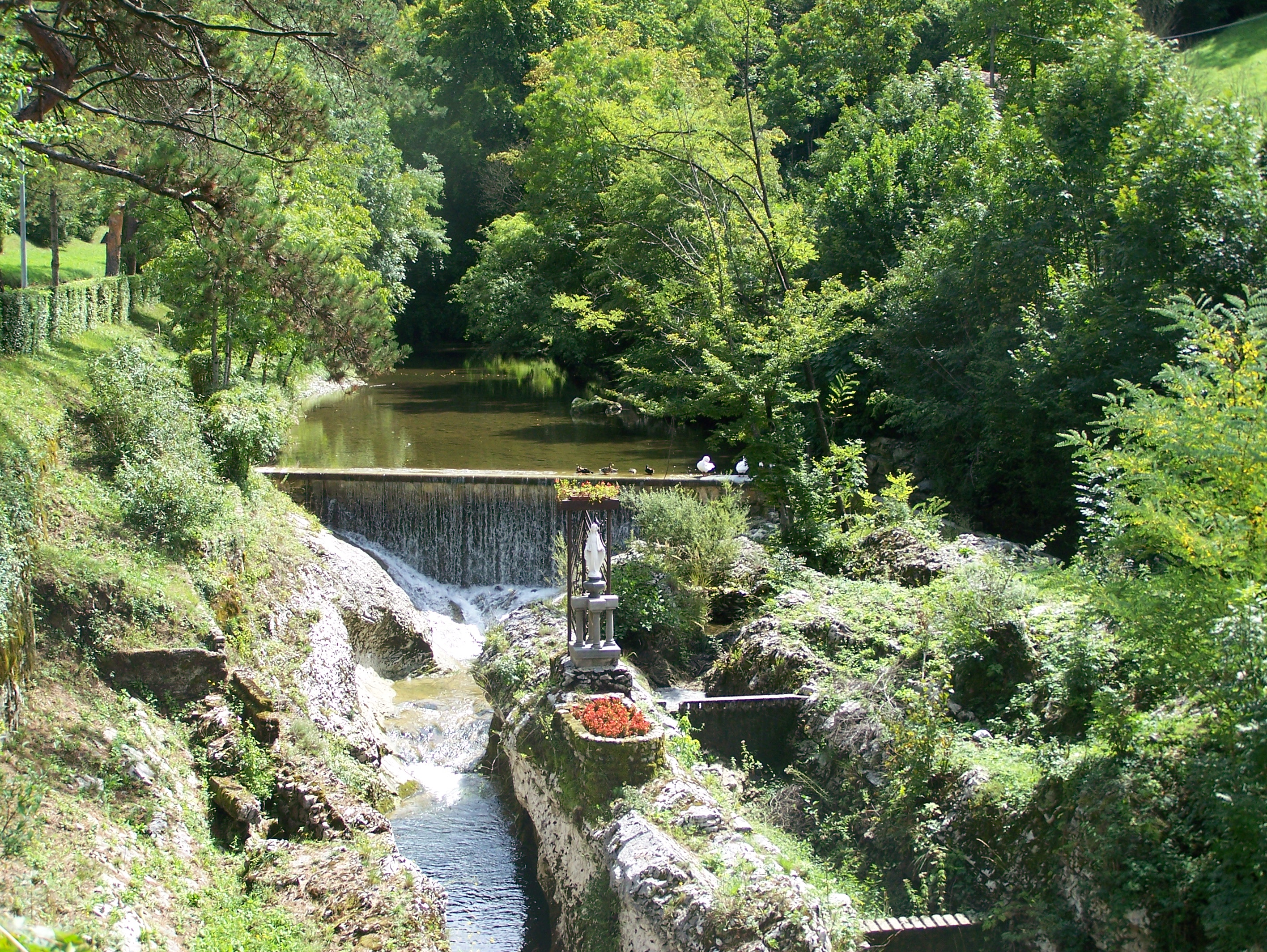 Cosizza river in Liessa, Grimacco, Udine Province, Italy Furlan: La madone di Liessa/Liesa in comun di Grimac, su la Cosize